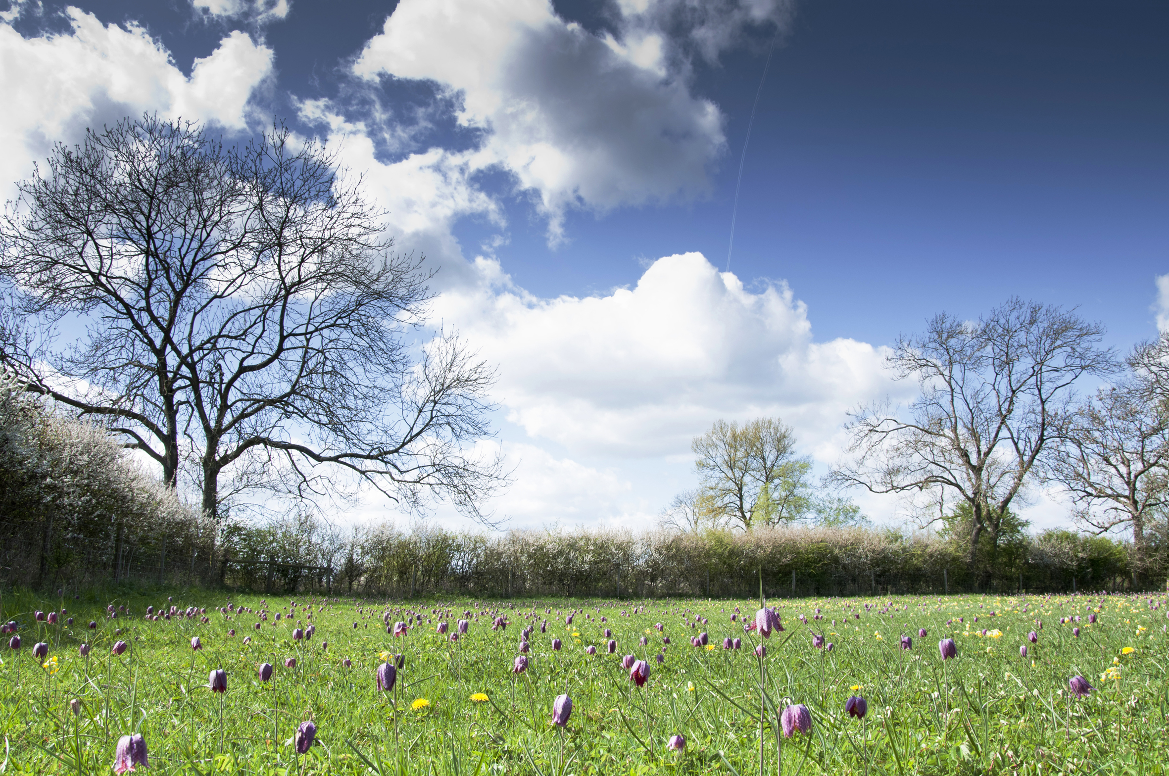 Snakeshead fritillaries in a meadow at the Clattinger Farm Wiltshire Wildlife Trust reserve. Taken on April 13, 2011.